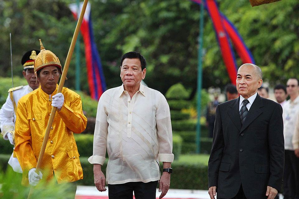 President Rodrigo Roa Duterte is welcomed by the King of Cambodia Norodom Sihamoni upon his arrival at the Royal Palace in Cambodia on December 14, 2016.